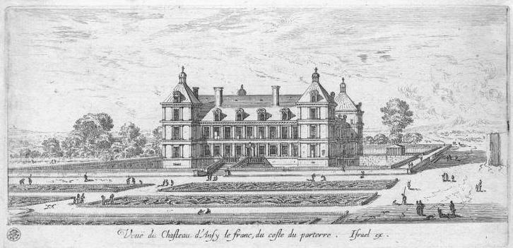 "Veue du chasteau d'Ansy-le-franc, du coste du parterre", 17th century etching